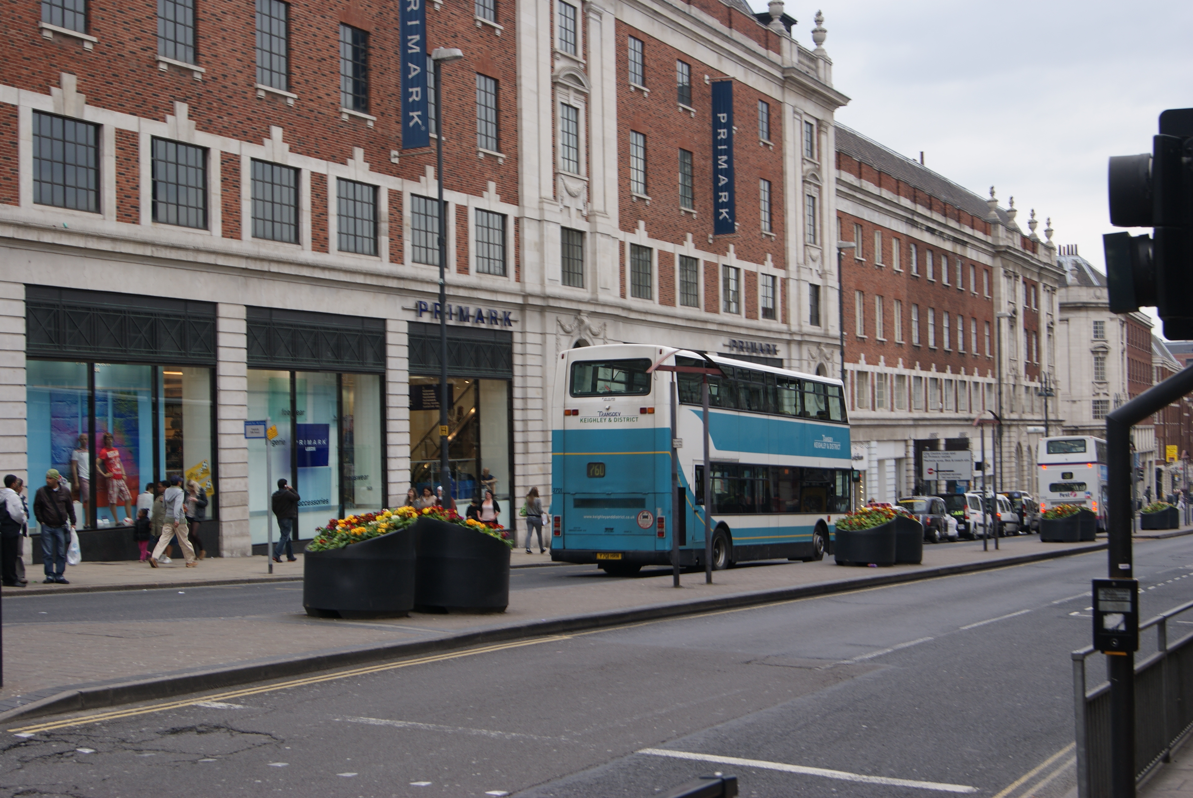 The Headrow (taken from the pavement on the South-side). Primark can be seen in the building that was once the Odeon Cinema (or at least one of two that were once in Leeds City Centre - I think there may have been even more going back a long-time). A double deck Keighley and District Bus can be seen heading East along the Headrow towards the City bus station. Taken on the afternoon of Tuesday the 4th of May 2010.